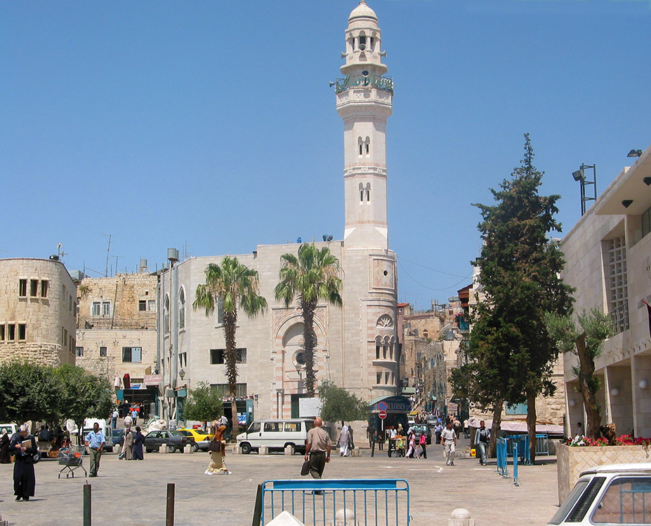 The Mosque of Omar, Bethlehem, July 2005. This photo is taken from outside the Church of the Nativity. The mosque is named after the Omar ibn Al-Khattab, who visited Bethlehem as an envoy of the Prophet Mohammad in 638 AD and is said to have prayed in this spot. The present building dates from 1860. This photo was taken by me in July 2005 and is put into the public domain. --Zero0000 06:44, 27 August 2005 (UTC).